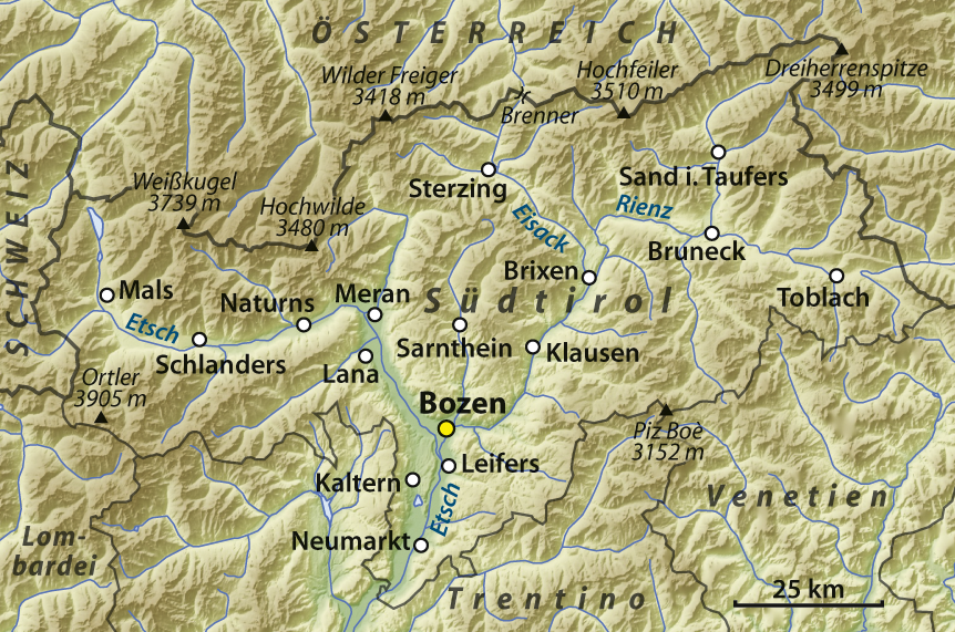 General map of the Province of Bolzano-Bozen, Italy